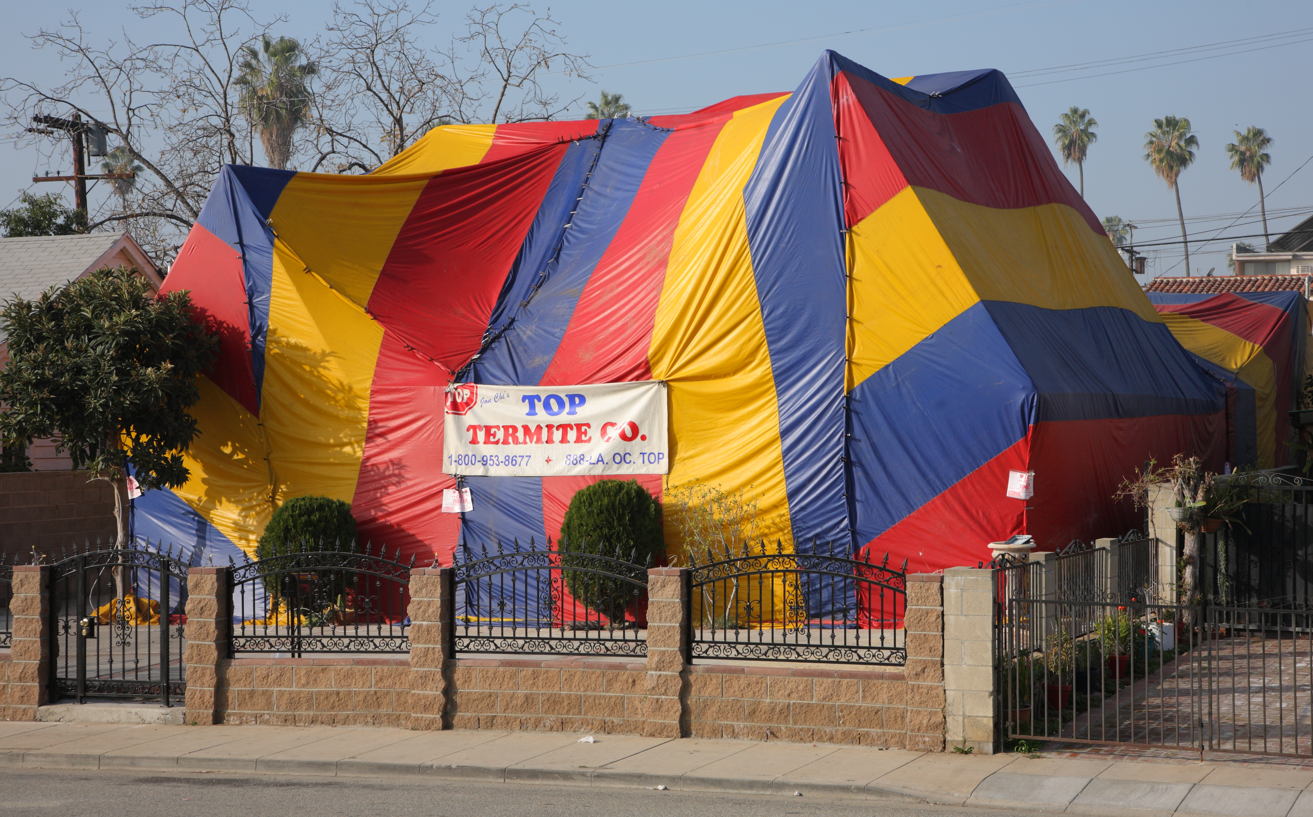 A residential property subject to tent fumigation or "tenting", a process in which the property is sealed over with a canvas and filled with a pesticide gas for a number of days in order to kill pests such as termites and cockroaches. Los Angeles, California.